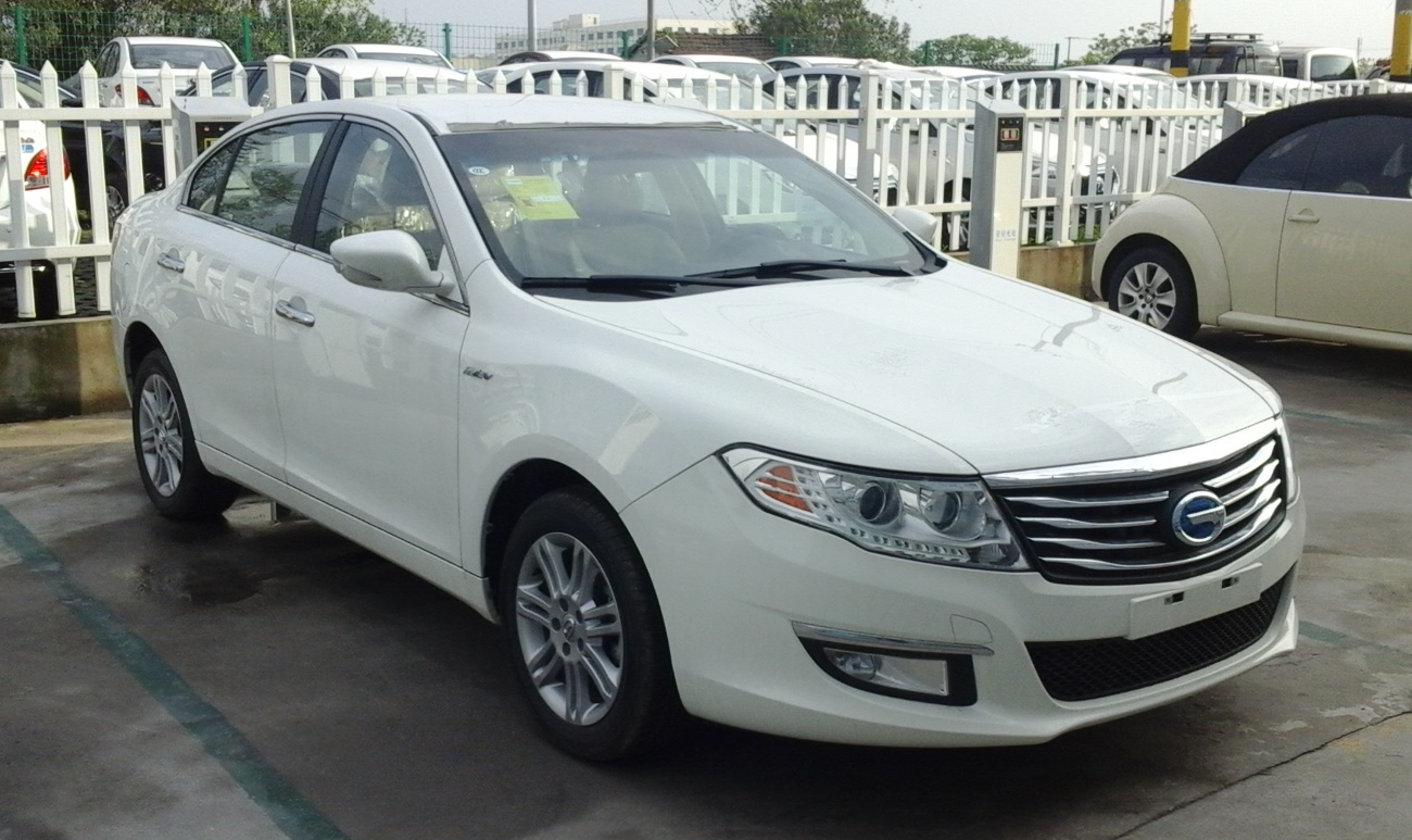 GAC Trumpchi GA5 REV photographed in Shanghai, China.